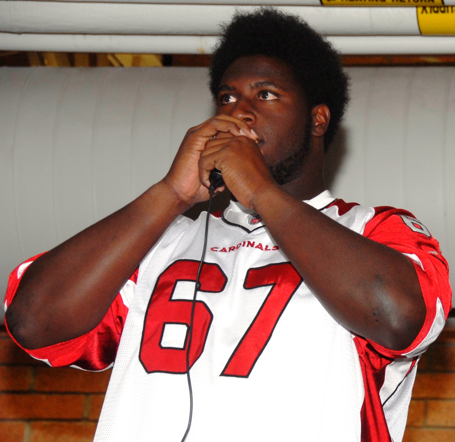 Arizona Cardinals G Herman Johnson, displays his musical talents during a Pros vs. GI Joes event at the Cardinals training facility in Tempe, Ariz. on Sept. 22. Pros vs. GI Joes is a non-profit organization that arranges video events between professional athletes and deployed service members. The competition in this event were members of the Ariz. Army national Guard's 1404th Transportation Company presently deployed in Iraq.